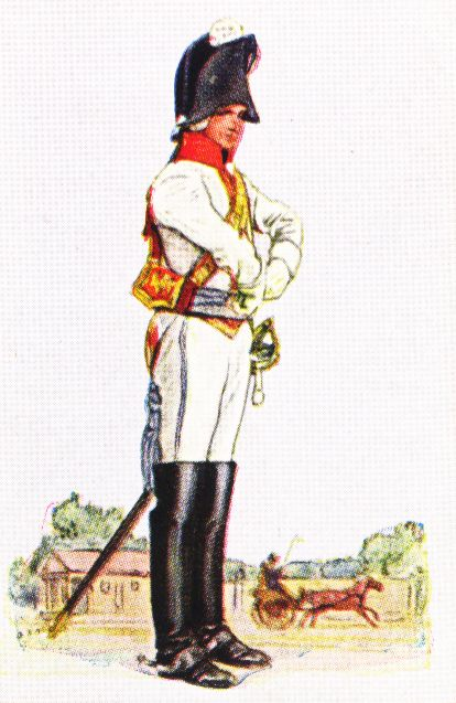 Uniform officer of prussian heavy cavalry 1806